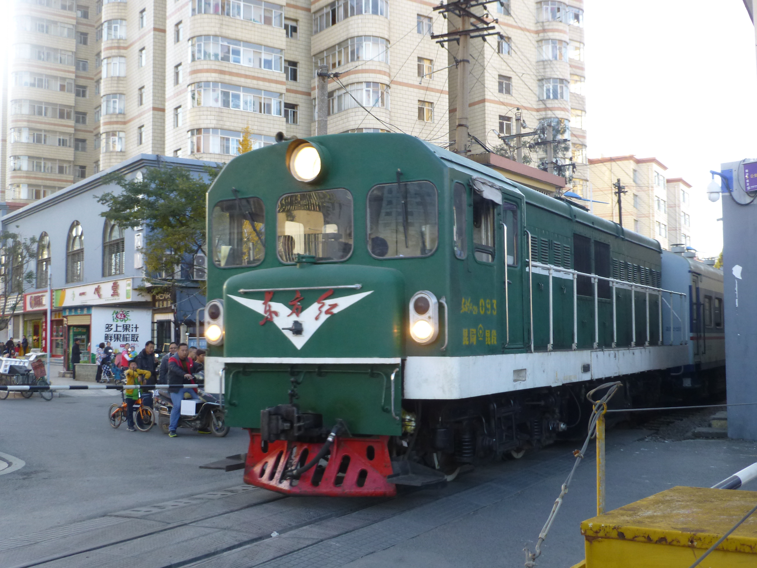 A narrow-gauge passenger train on Kunming-Hekou Railway, on its way from Kunming North Station to Wangjiaying. Photo taken at a railway crossing a few blocks east of Kunming North Railway Station